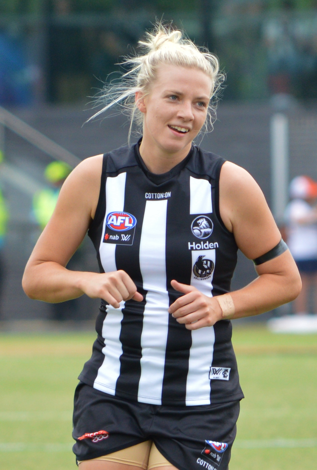 Christina Bernardi during the round 3, 2018, AFL Women's match between Collingwood and Greater Western Sydney